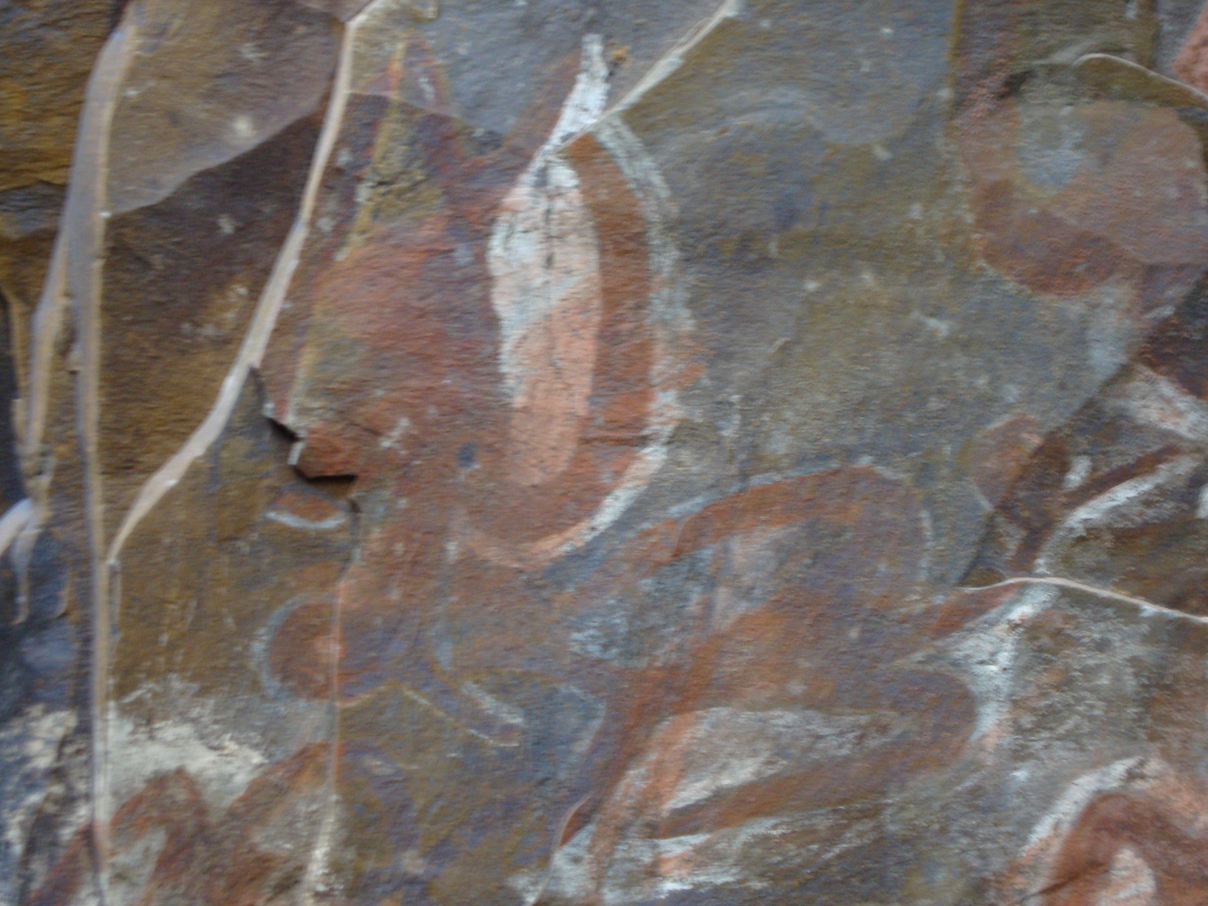 Indigenous cave art at Ana Kai Tangata, Easter Island.